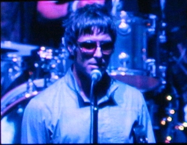 Liam Gallager performing at an Oasis concert at Shoreline Amphitheatre in Mountain View, California, September 11, 2005